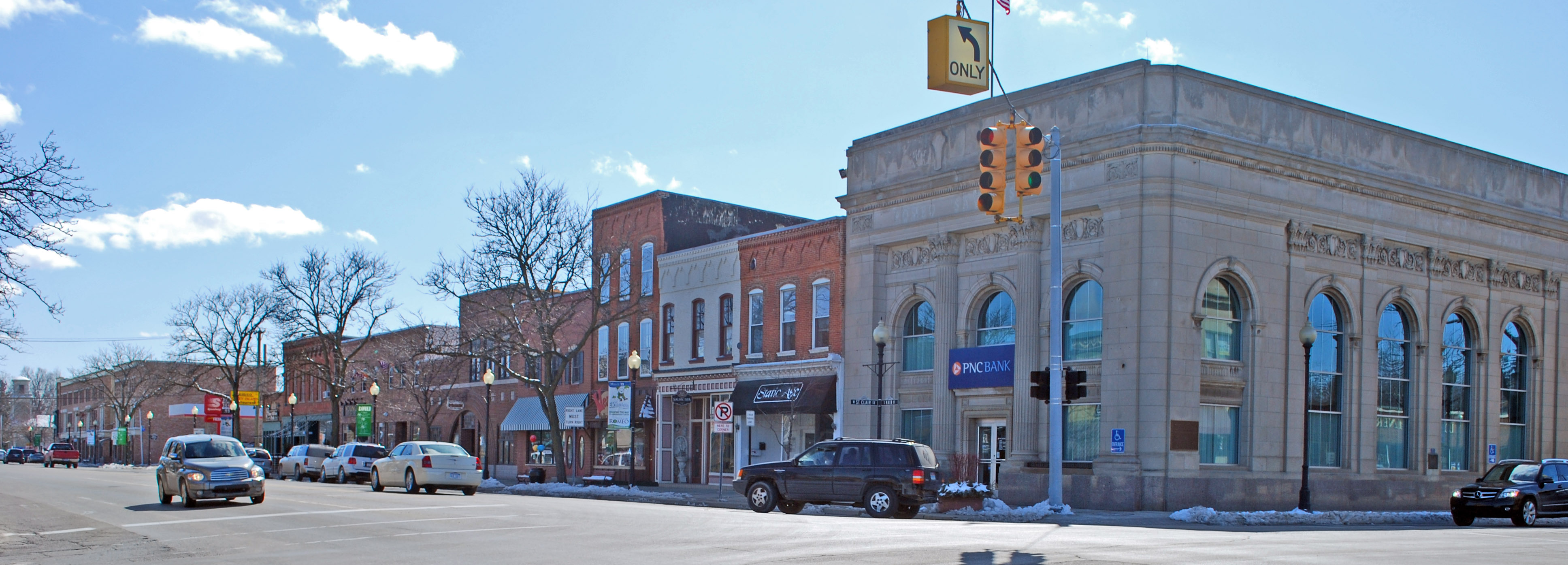 Romeo Historic District (Main St & 32 Mile) in Romeo, Macomb County MI